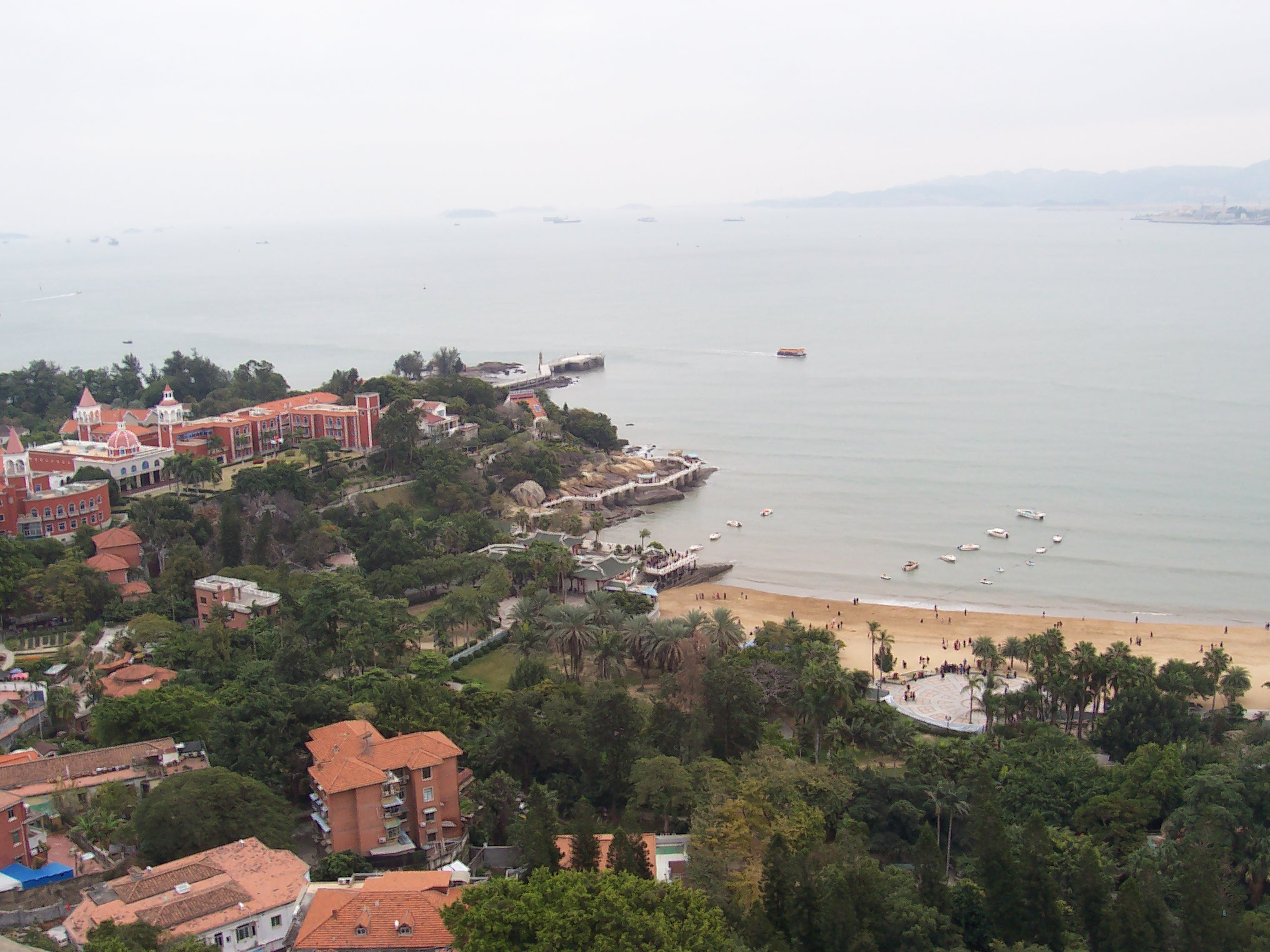 Gulangyu Island,Xiamen City China